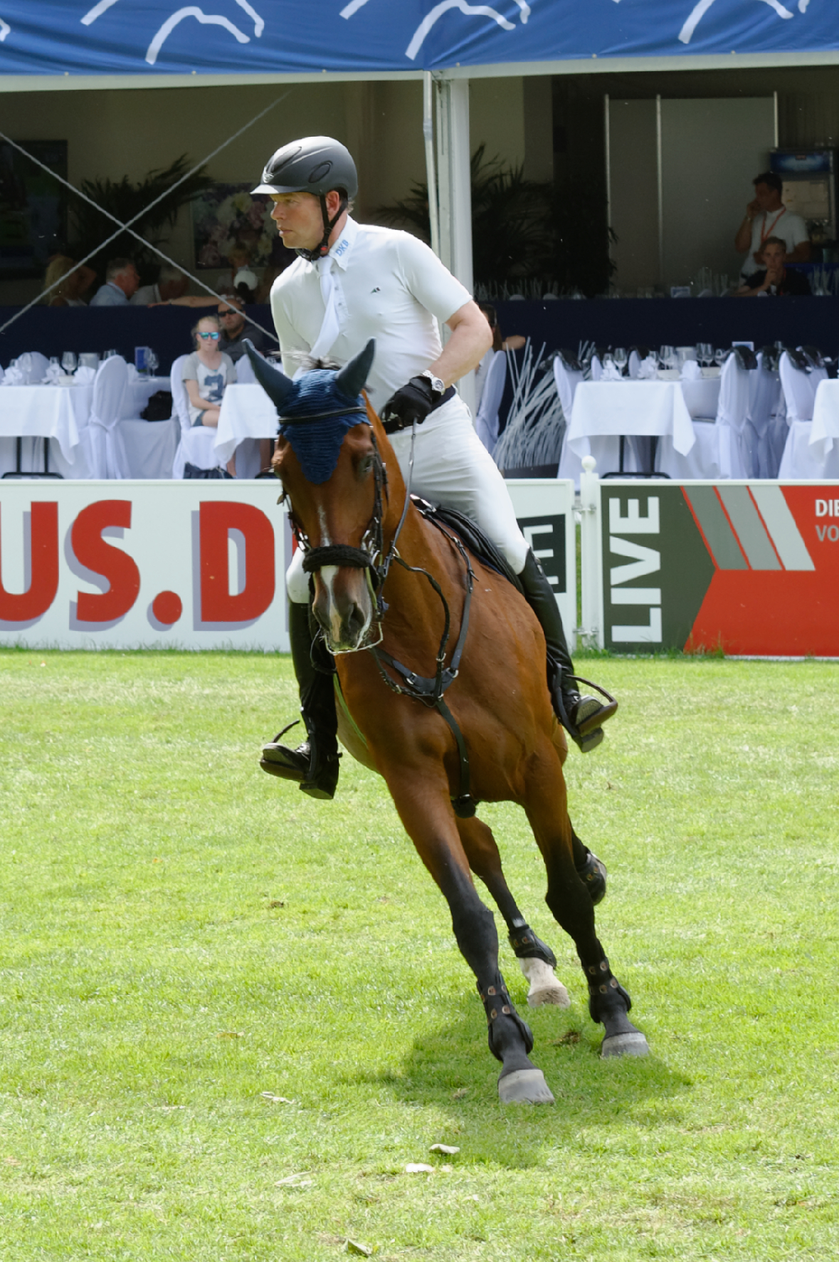 Internationales Pfingstturnier Wiesbaden 2014 The making of this document was supported by the Community-Budget of Wikimedia Germany.